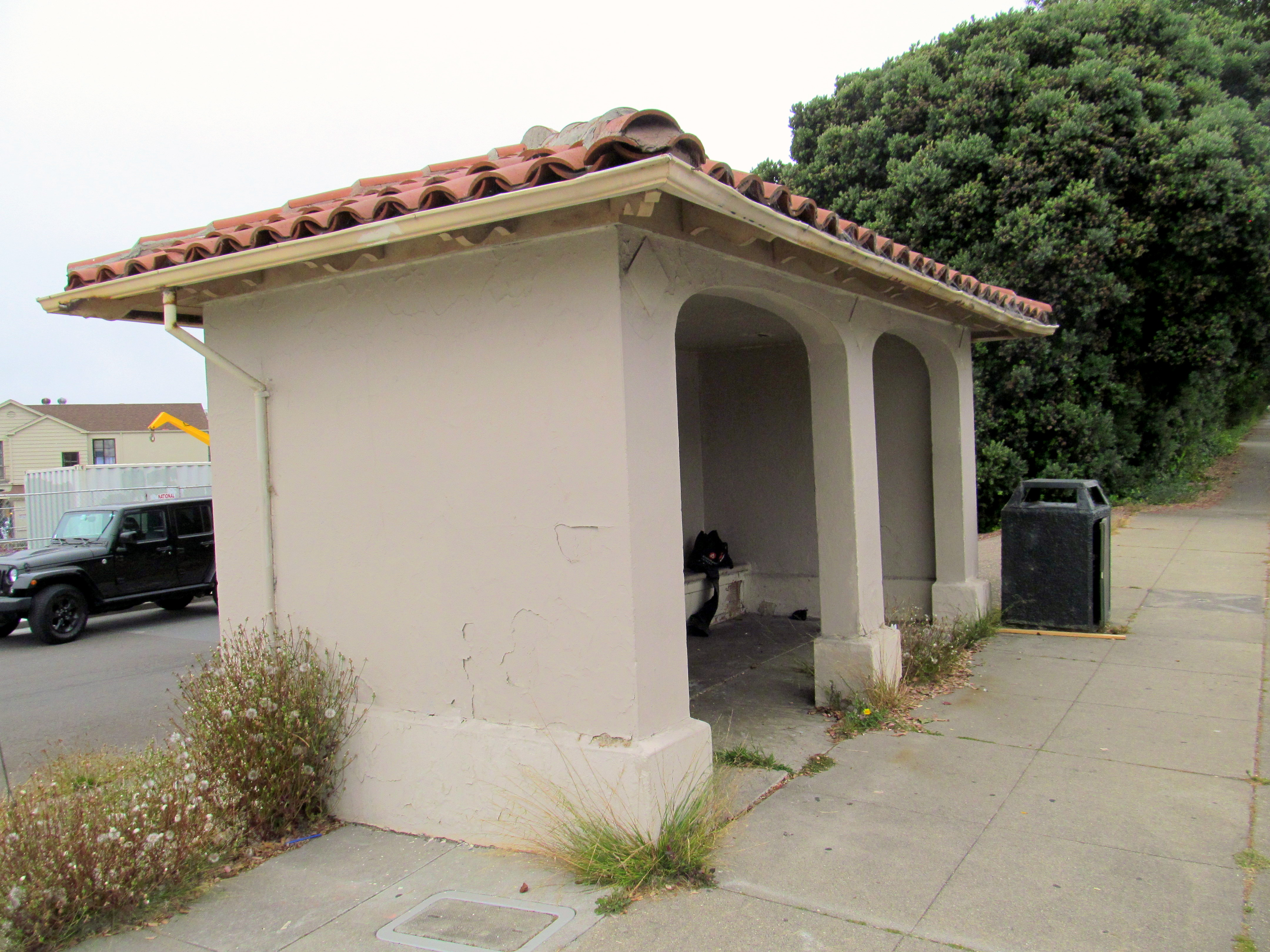 Southbound bus shelter at Junipero Serra and Ocean station in July 2017